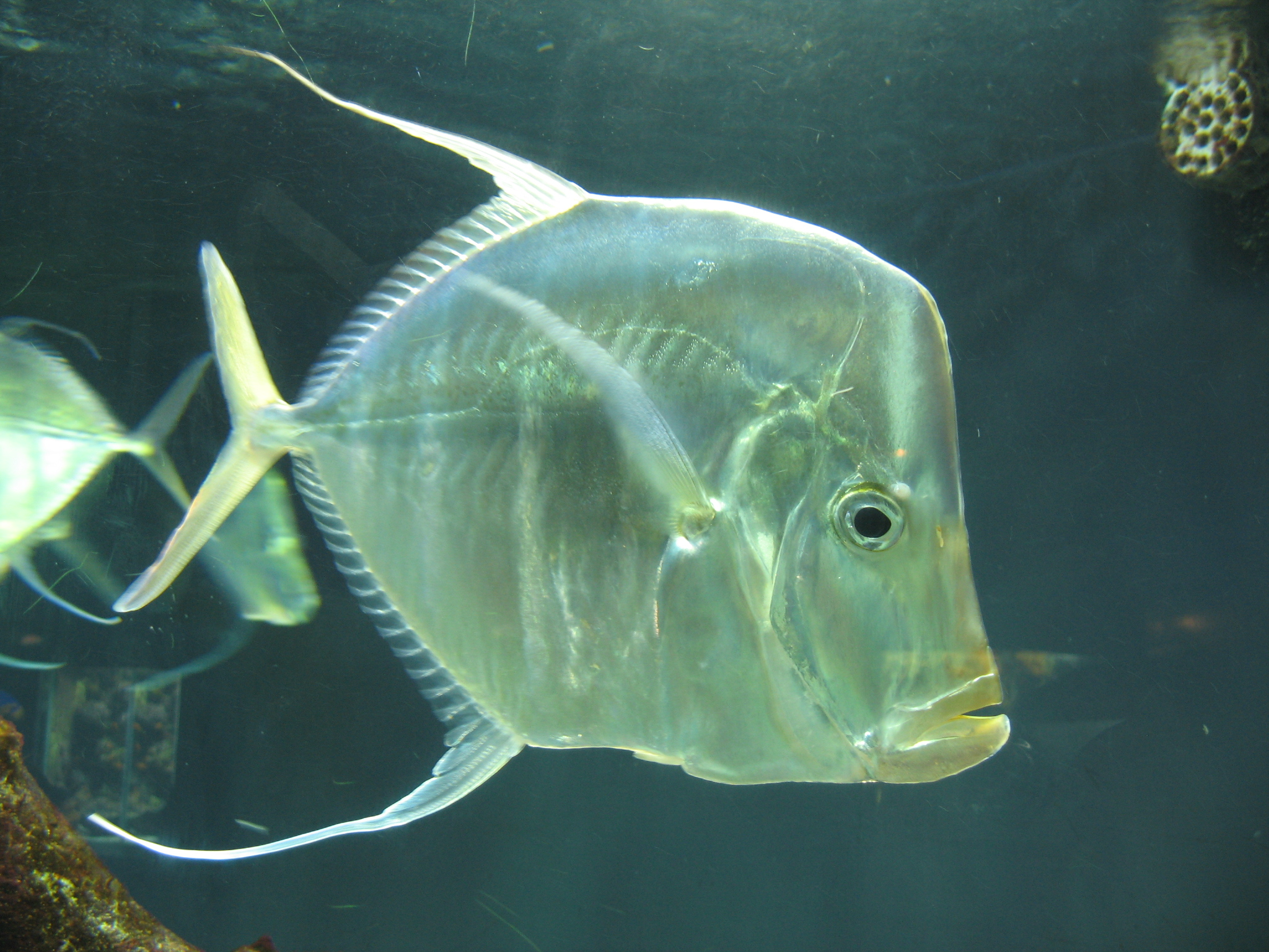 Lookdown fish, Selene vomer at Musée Océanographique de Monaco